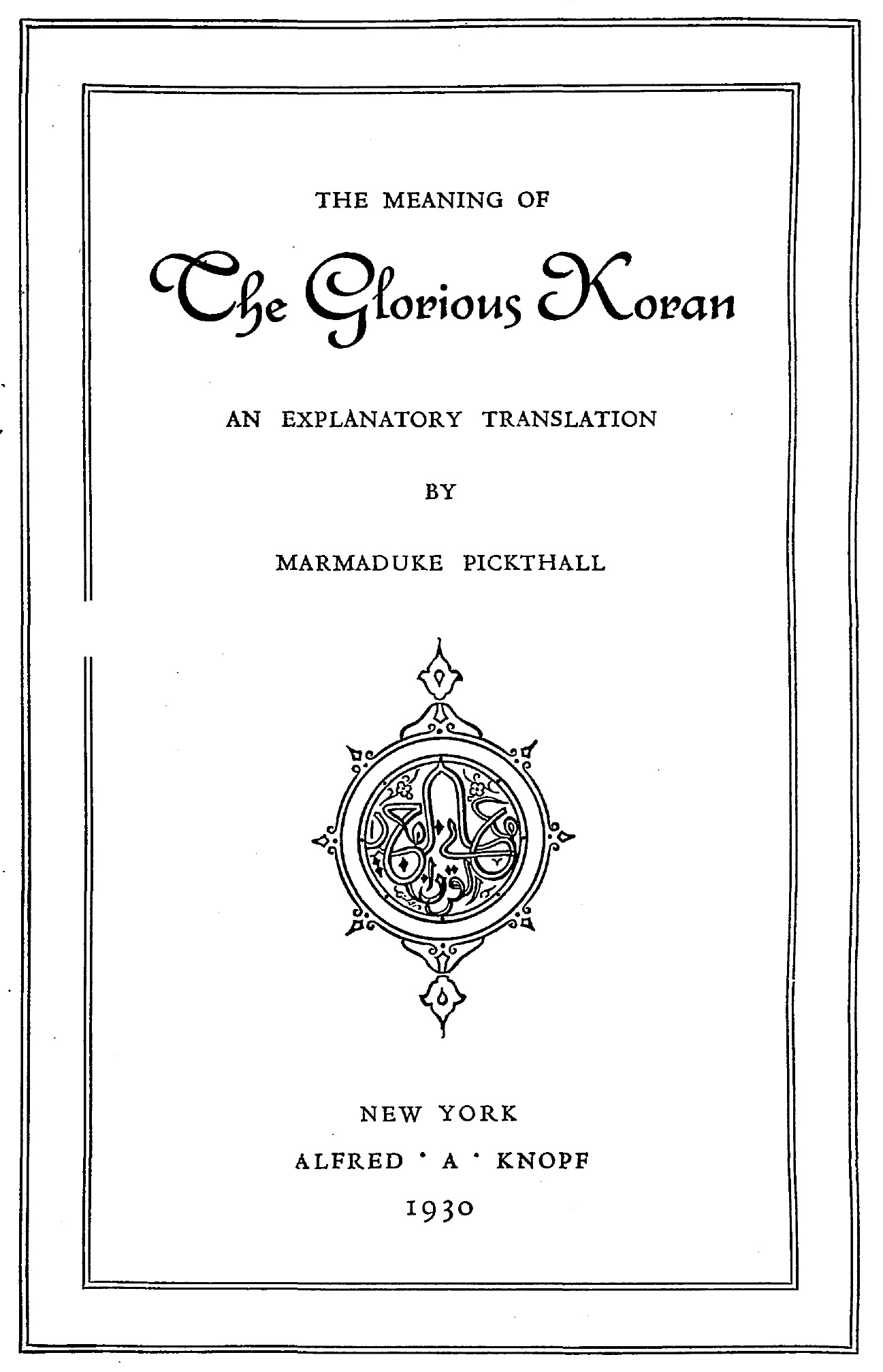 Title of The Meaning of the Glorious Koran, (1930) Author: Marmaduke Pickthall Published: New York, 1930